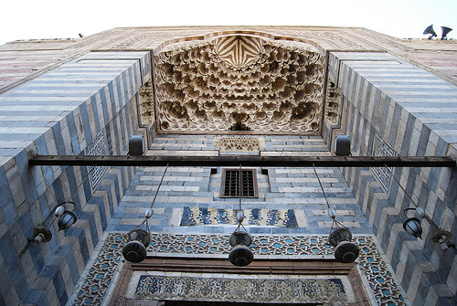 The main enterance of the Al-Muayyad Mosque in Cairo.